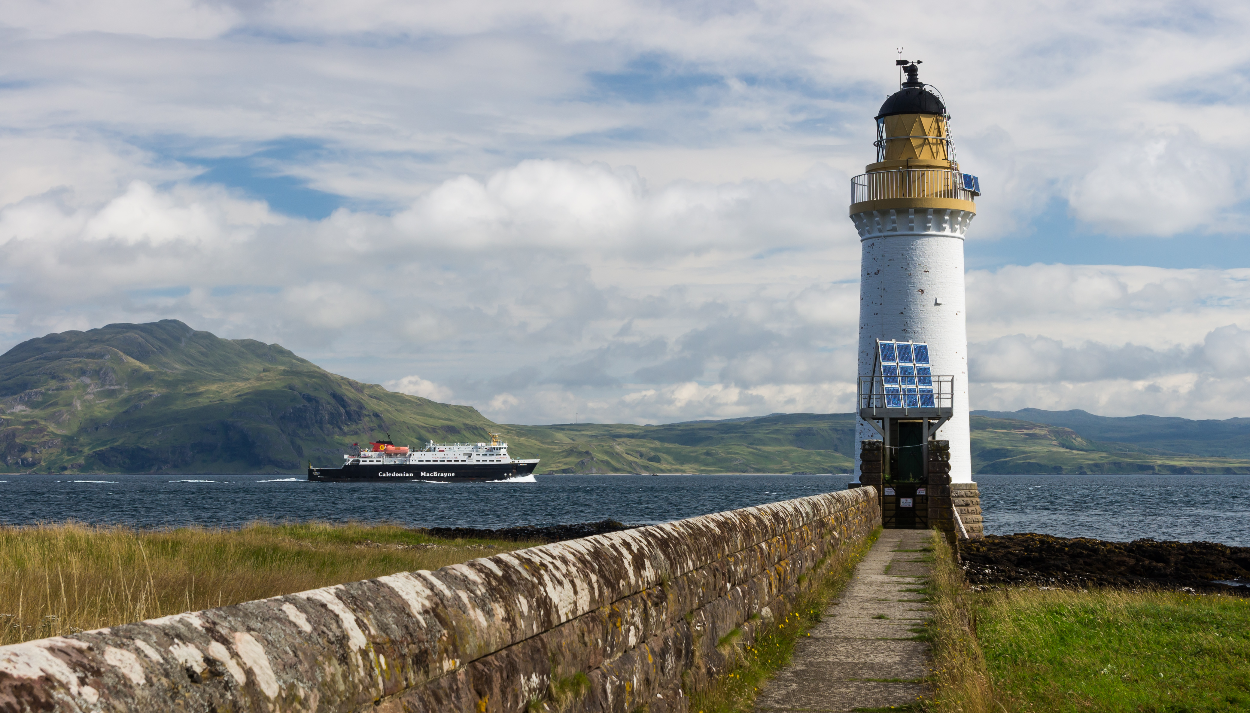 Looking from the Isle of Mull towards the Ardnamurchan peninsula with Ben Hiant dominating. Sailing past is the Caledonian MacBrayne ferry MV Clansman bound for Oban from the islands of Tiree and Coll. Rubha nan Gall lighthouse, at 18.9m tall, was built in 1857 by David and Thomas Stevenson and automated in 1960.